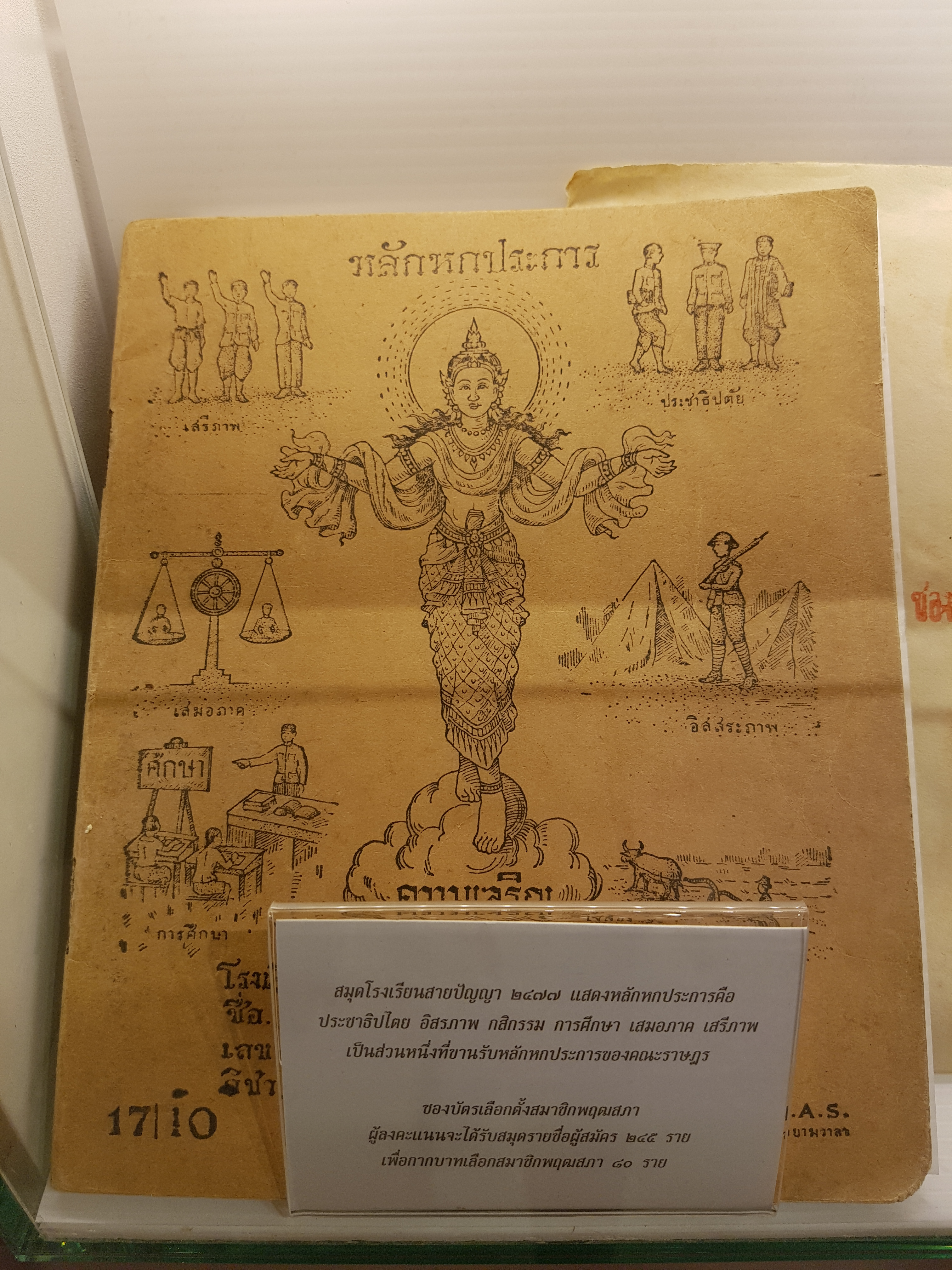 A school notebook whose front cover demonstrates the six principles of the People's Party of Thailand, displayed at Thai Parliament Museum housed by Parliament House of Thailand, Bangkok.